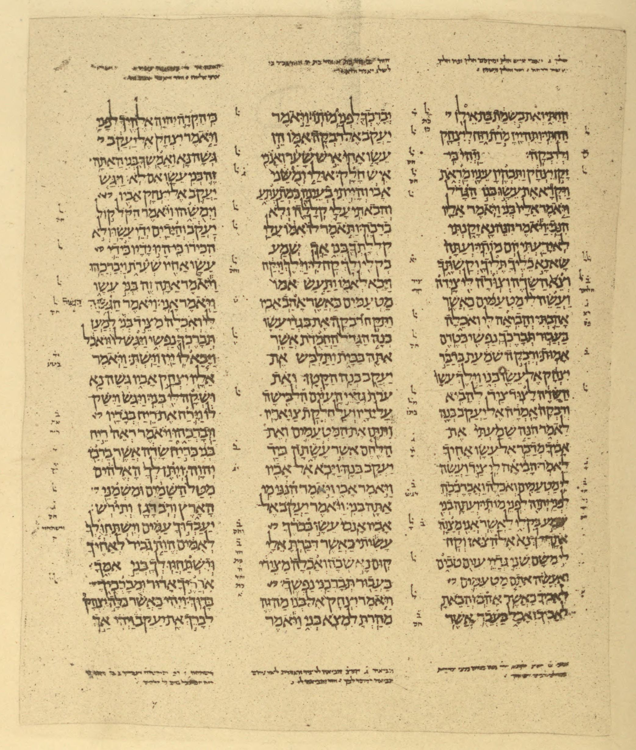 A page of the Aleppo Codex that was photographed in 1887 by William Wickes, containing Genesis 26:35 (החתי) to 27:30 (ויהי אך).